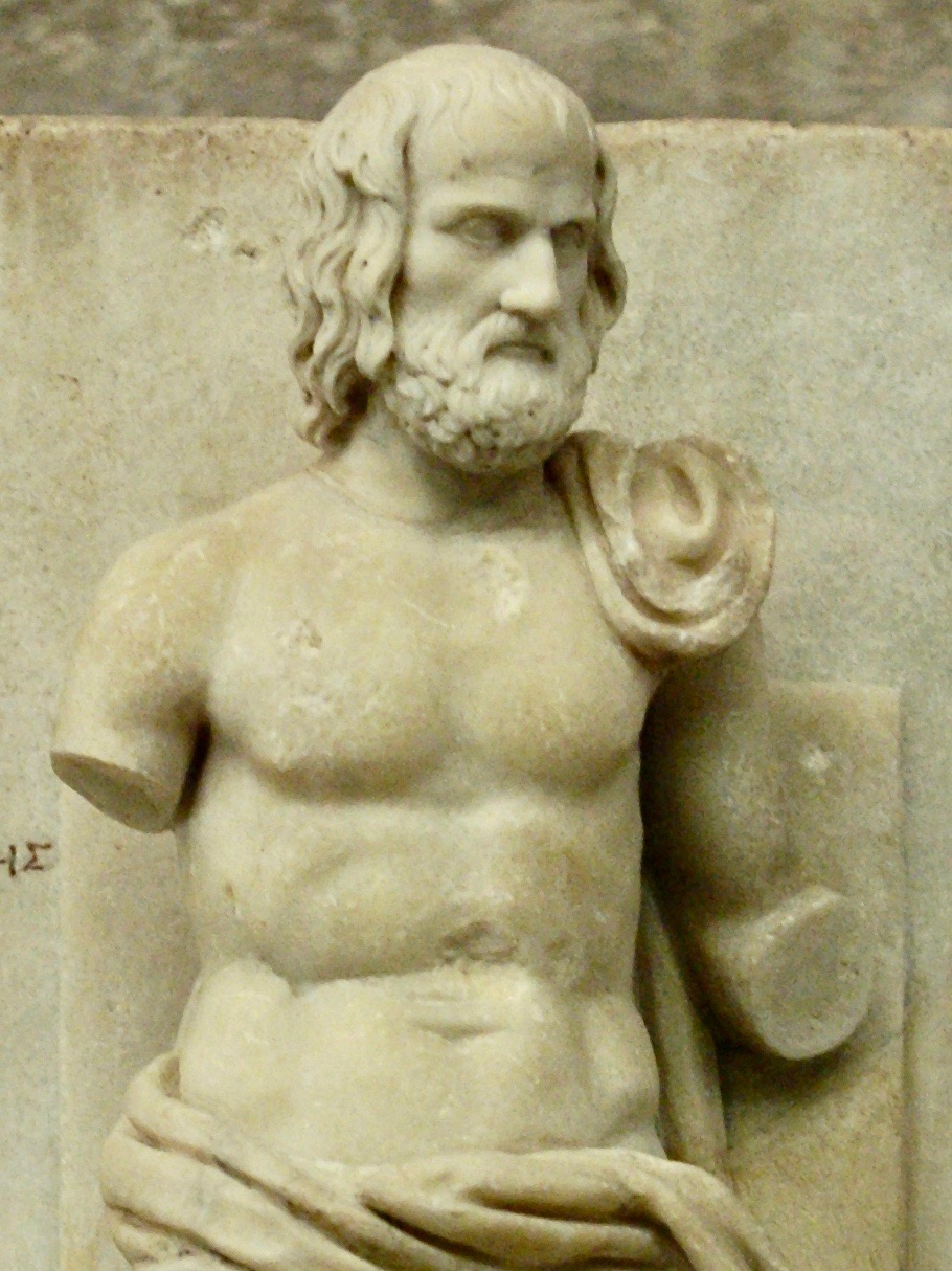 Detail of a statuette of Euripides, identified by an inscription on the base. On the background panel are listed some of Euripides' works. The statuette's head was restored after a bust now in the Archaeological Museum of Naples. Marble, found in 1704 in the Esquiline Hill at Rome, 2nd century AD.